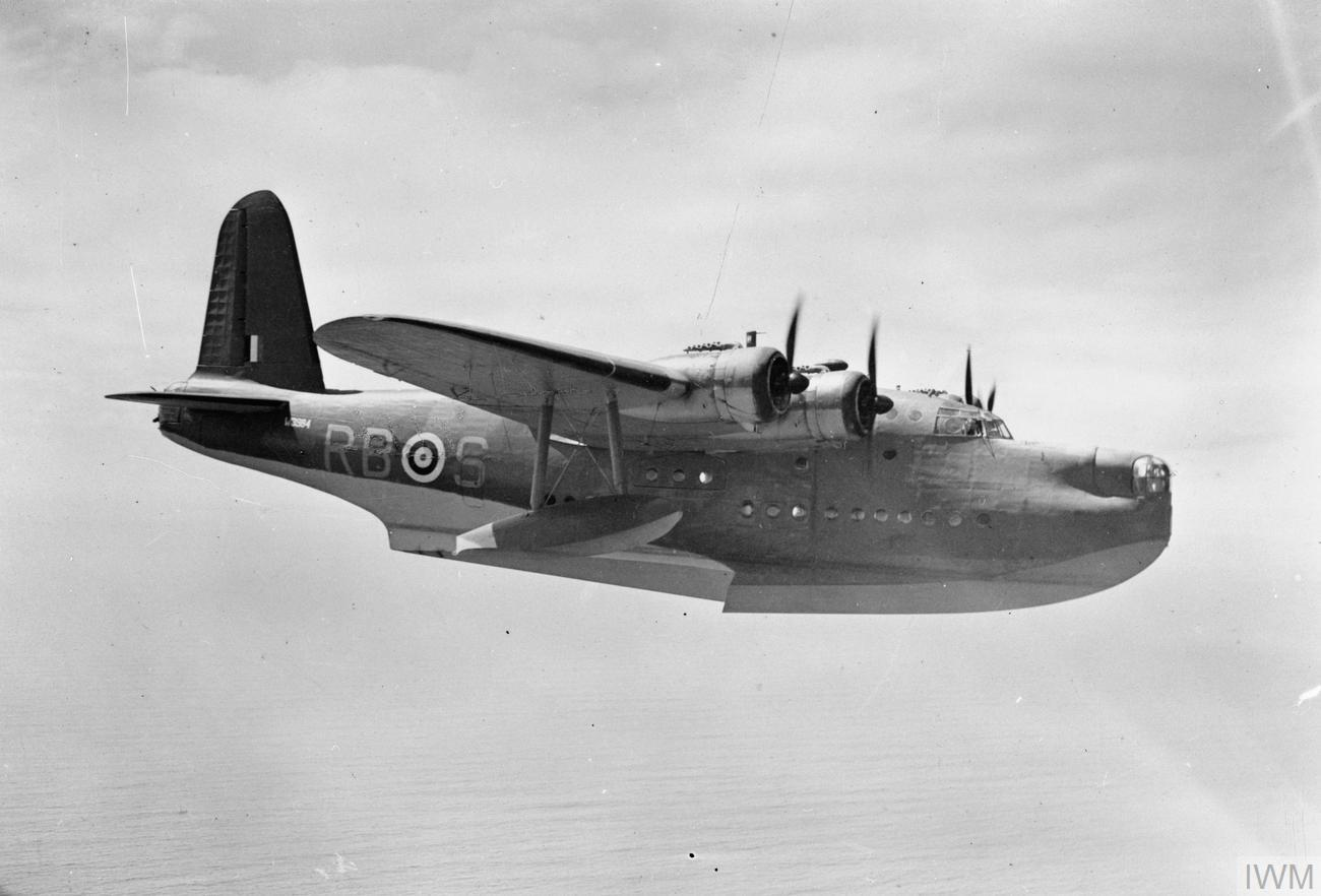 The Battle of the Atlantic 1939 - 1945 Allied Aircraft: A Short Sunderland Mk II flying boat of 10 Squadron, Royal Australian Air Force, used for reconnaissance and anti-U-boat duties